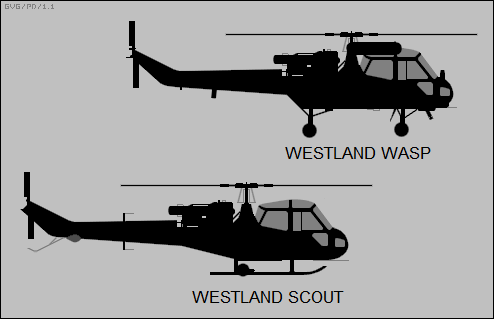 Side-view silhouettes of the Westland Scout and Wasp